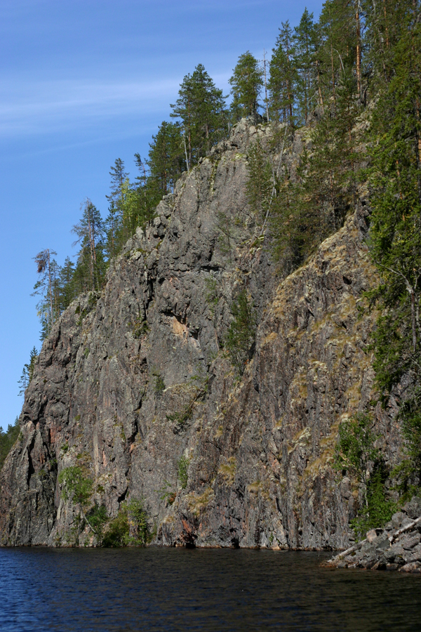 Canyon of the Julma Ölkky lake in Kuusamo, Finland